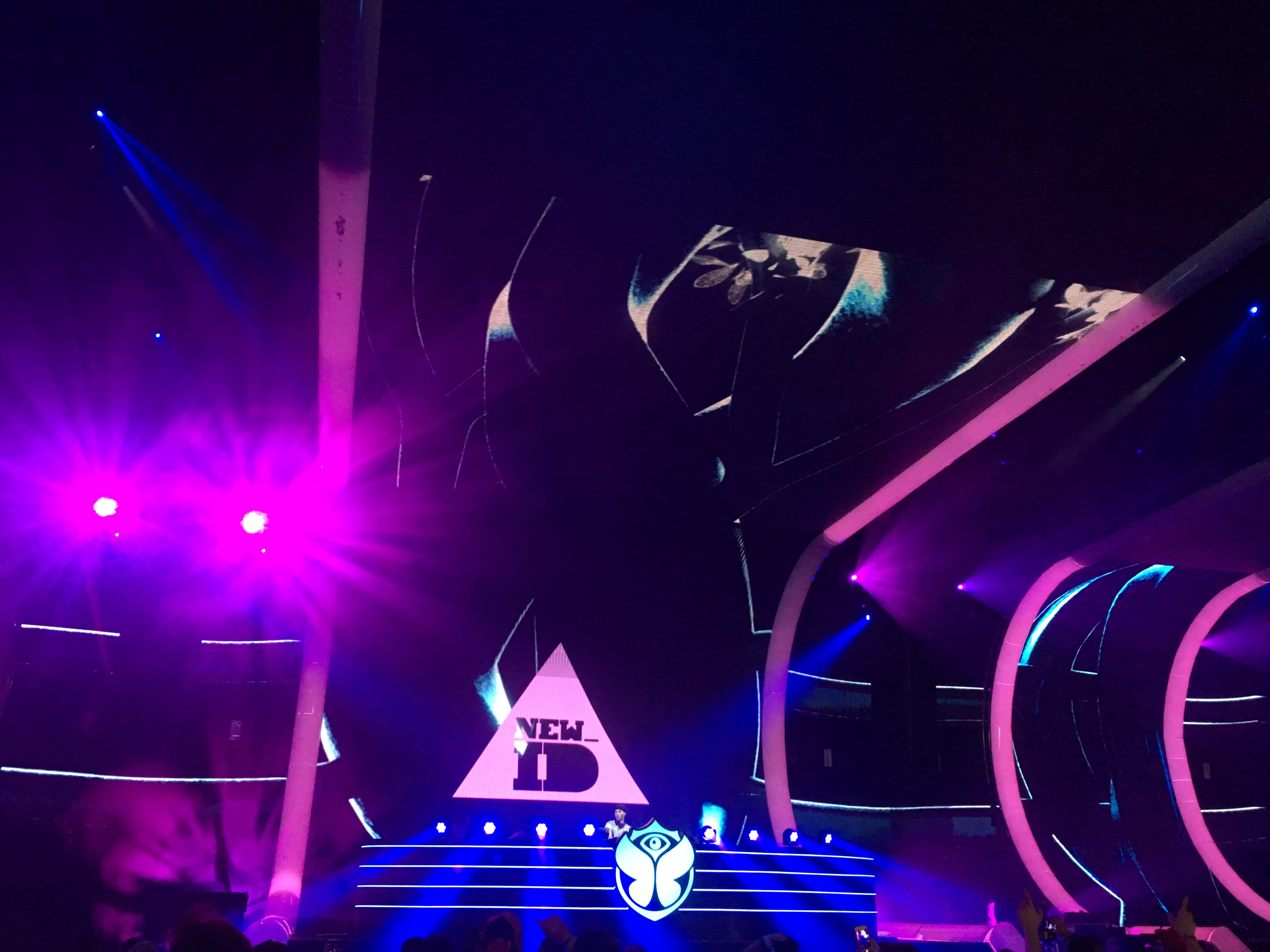 New ID on one of the Tomorrowland stages, 2017, july 29